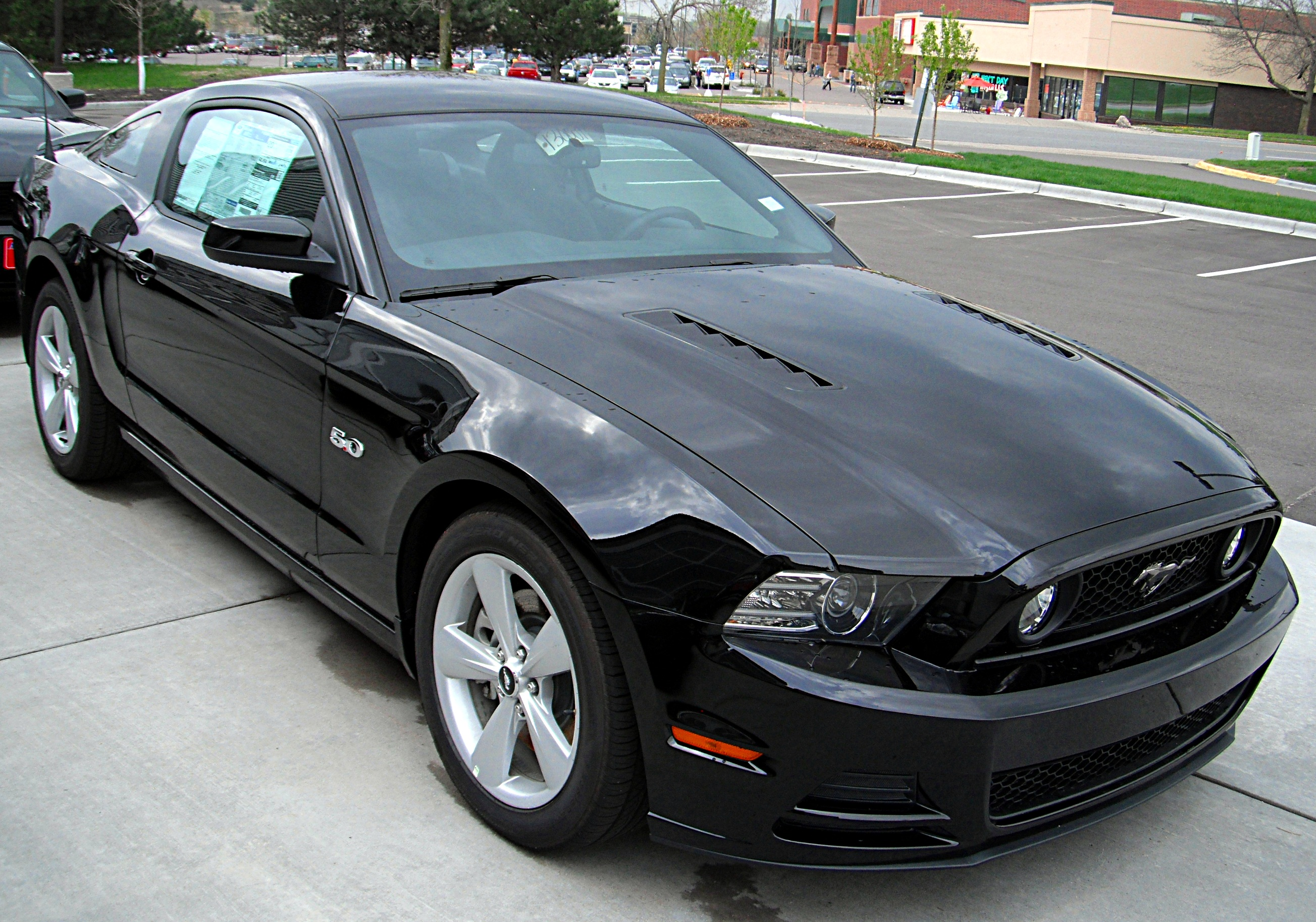 2013 Ford Mustang GT (front view)